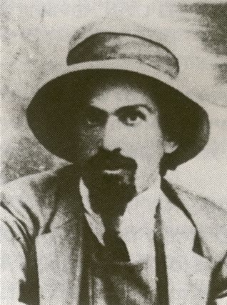 Israel Shochat founder of Hashomer